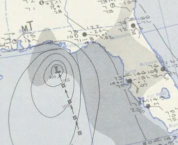 June 6, 1953 surface weather analysis of Tropical Storm Alice (1953).